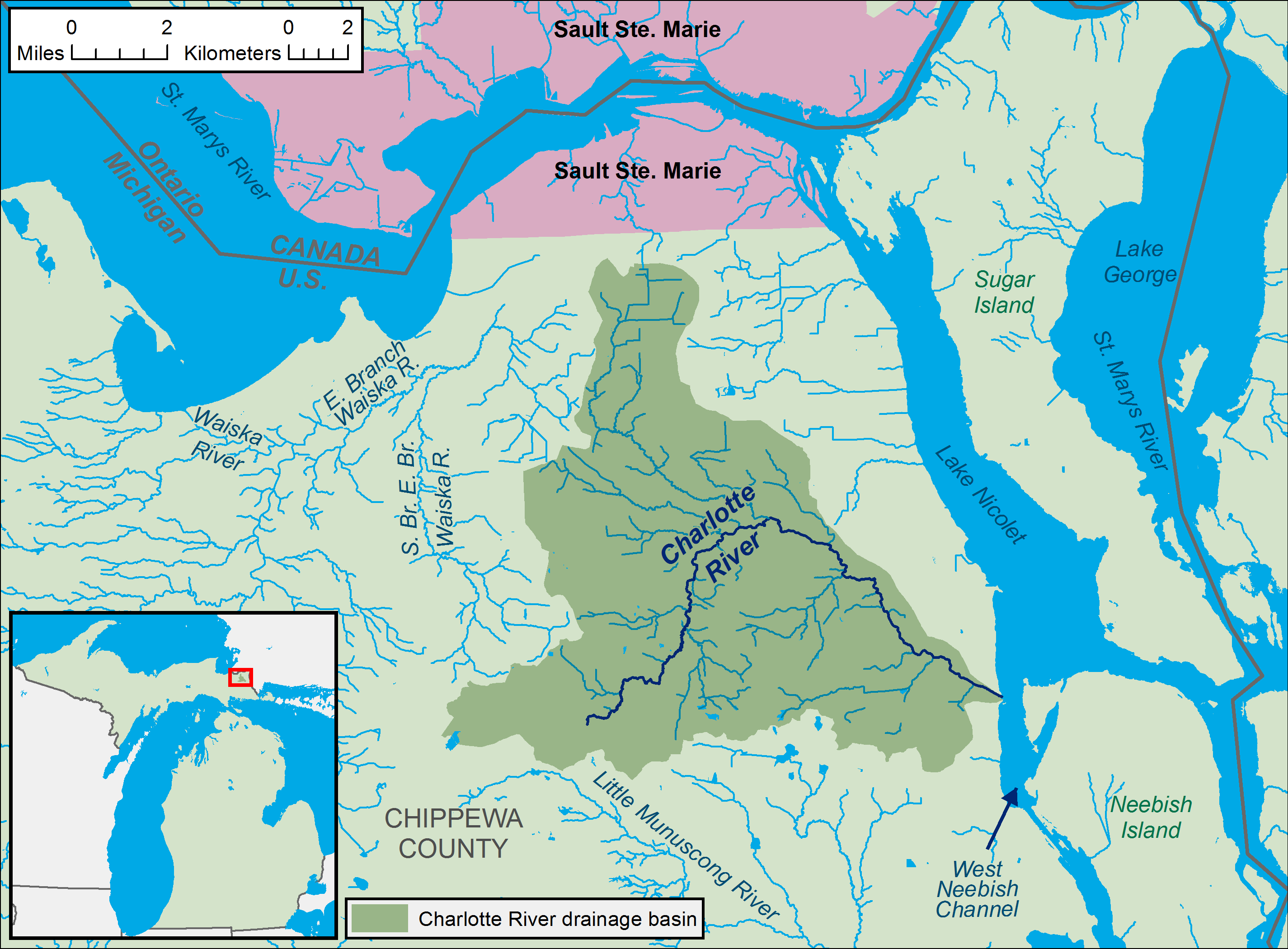 A map of the Charlotte River and its watershed (USGS HUC-12 codes 040700010203 and 040700010204) in Chippewa County, Michigan.